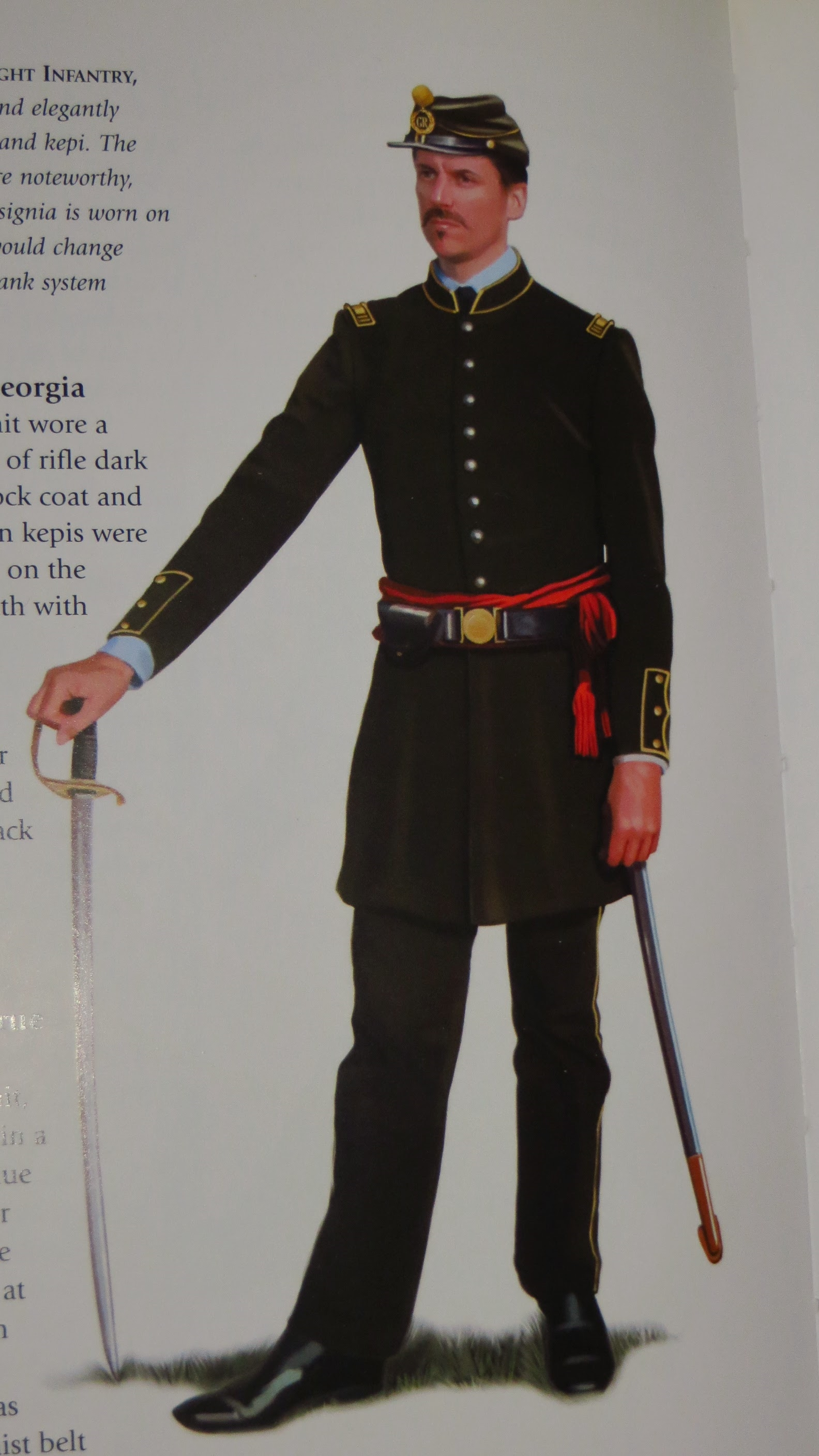 Picture taken from a book describing the different confederate regiments. Here we have a 5th Georgian posing in this art.